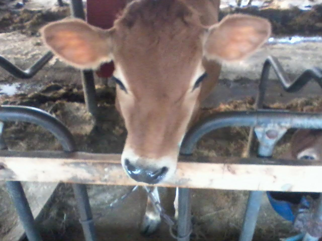 A Jersey heifer calf displaying the signs of wry nose. The heifer, named Lot's Wife (Lottie), was born on 31 October 2014, making her almost 10 months old when this picture was taken today.